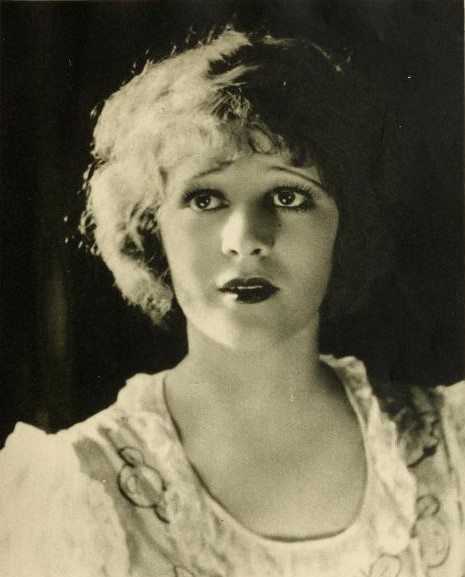 Publicity photo of Marguerite De La Motte from Stars of the Photoplay